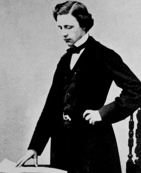 Photograph of Lewis Carroll.